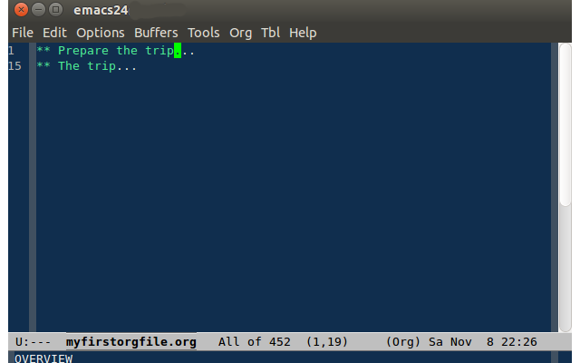 a org file shown in overview